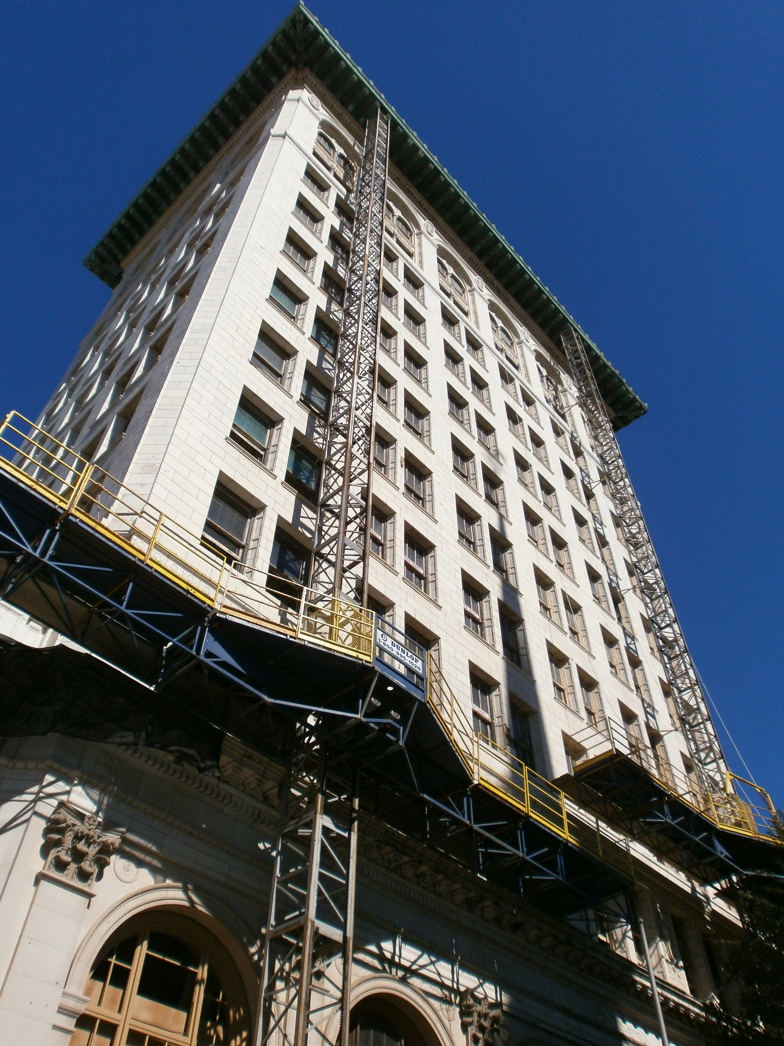 Former 1st National State Bank Building undergoing renovation Fall 2012 to Hotel Indigo Broad Street four Corners Newark